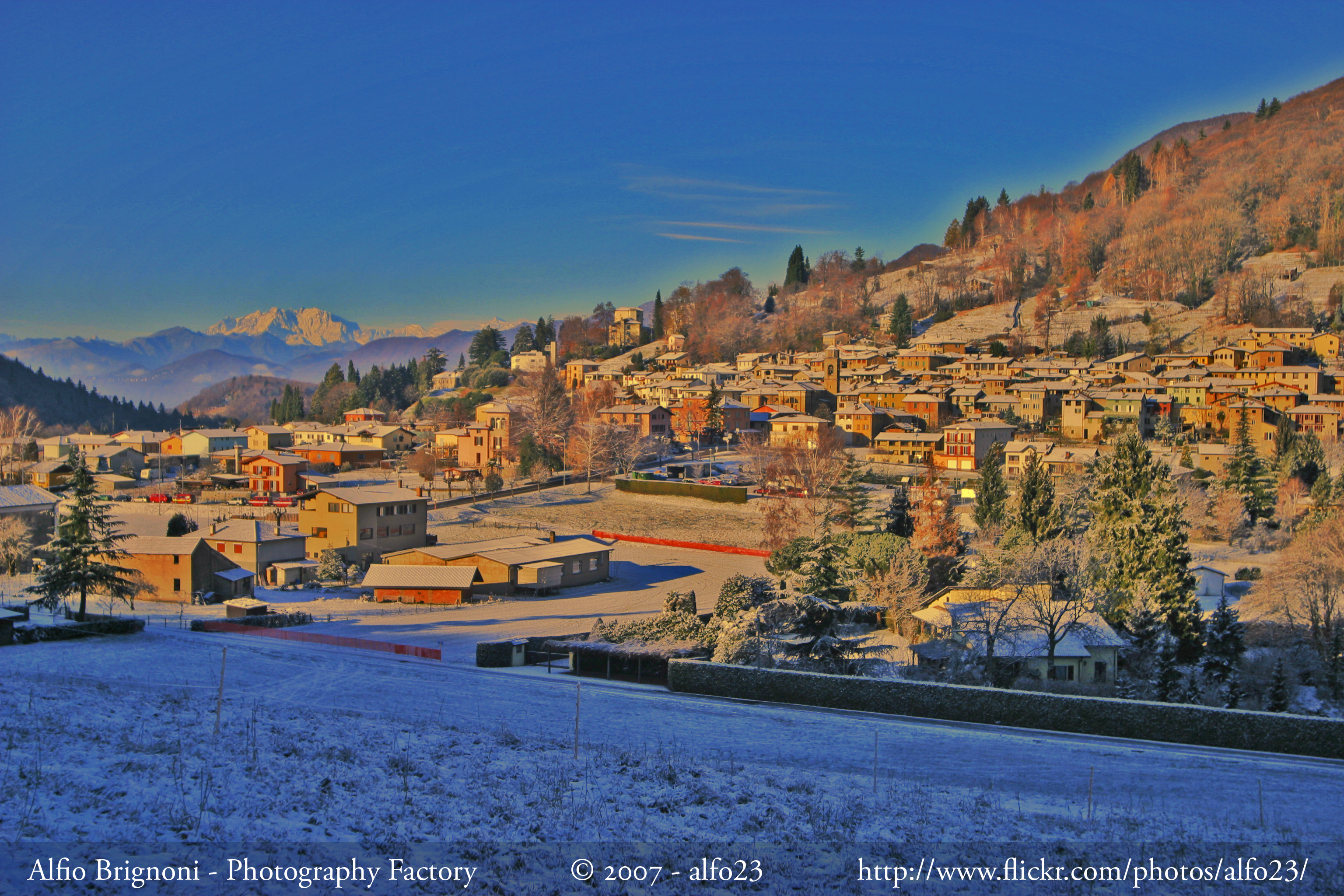 HDR image of Novaggio, Ticino, Switzerland